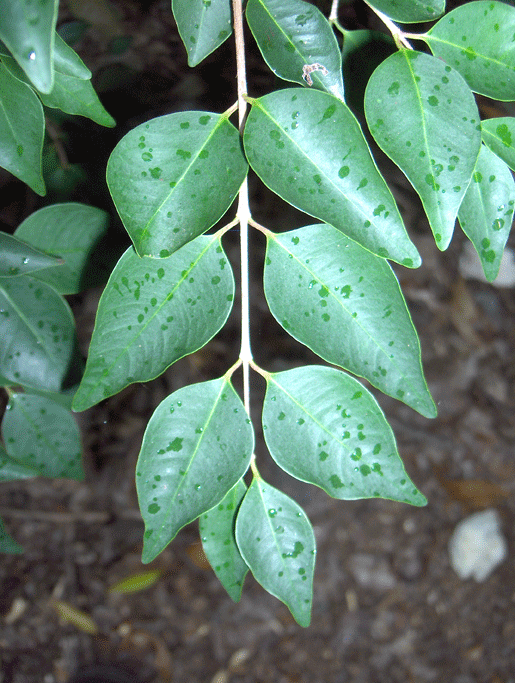 Red-Stopper